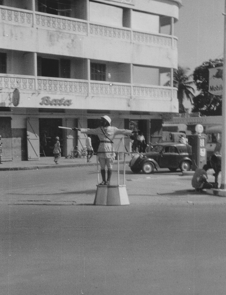 Traffic cop in a square in downtown Conakry 1956 with Bata shoe store in the background